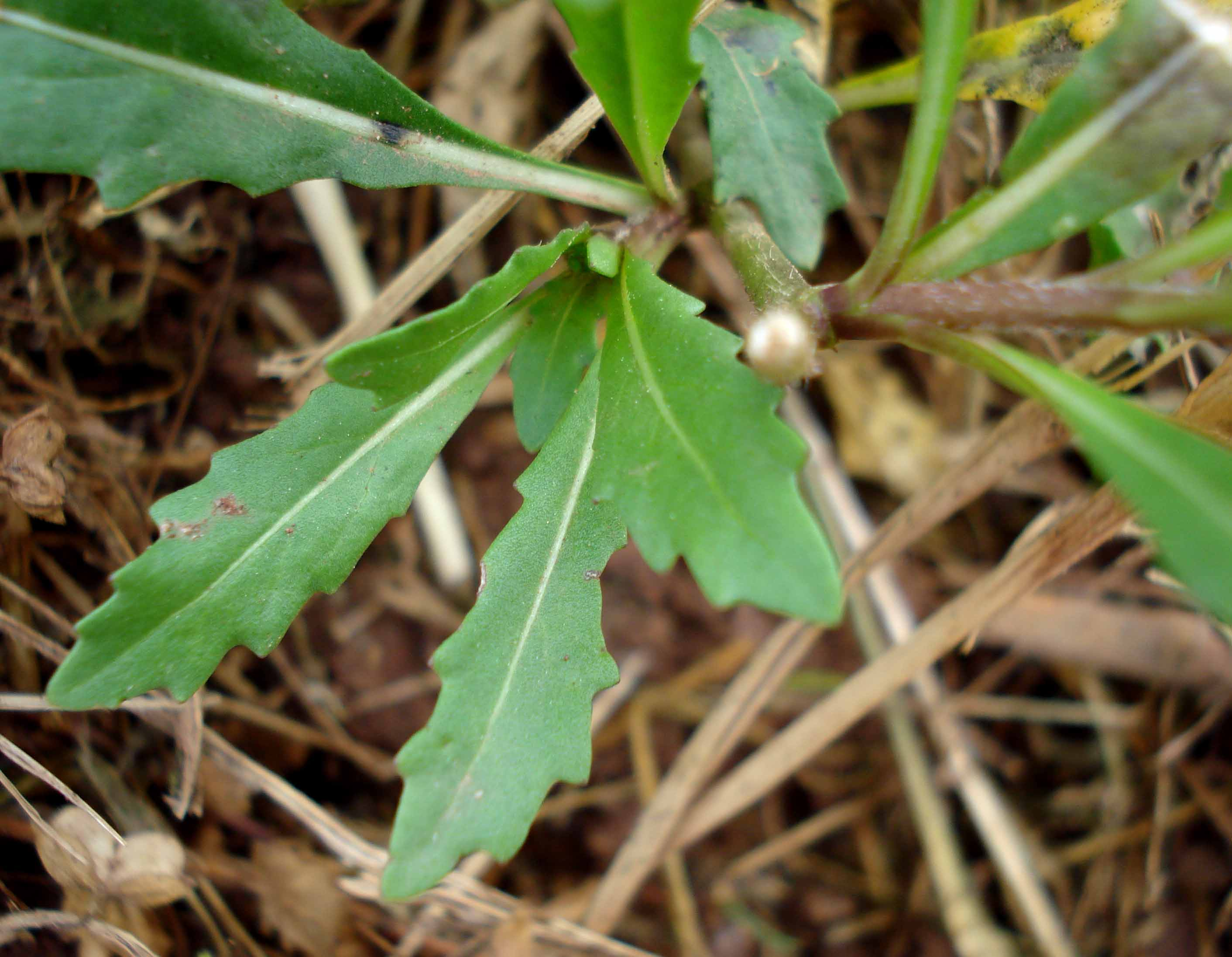 Diplotaxis muralis (Unterfranken, Germany)